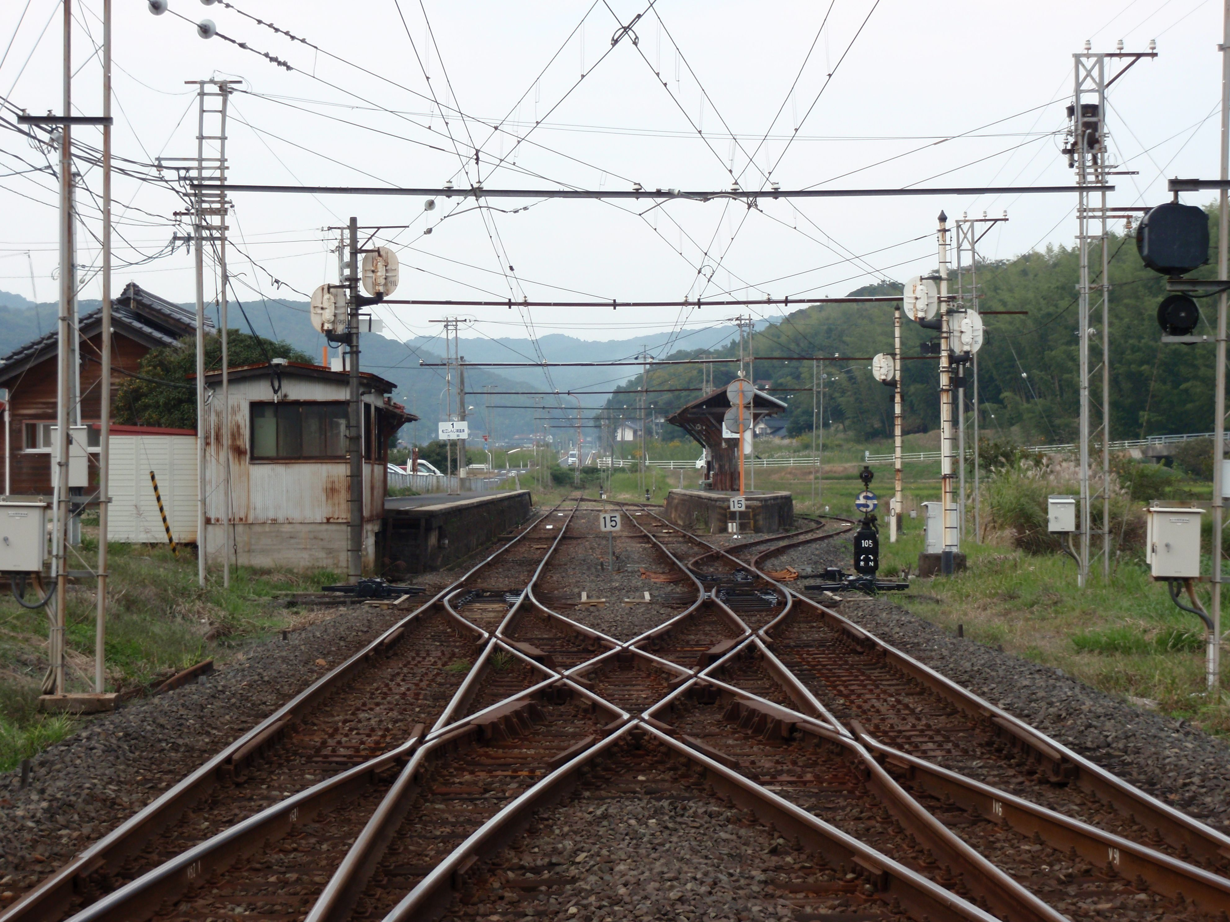 Ichibataguchi Station